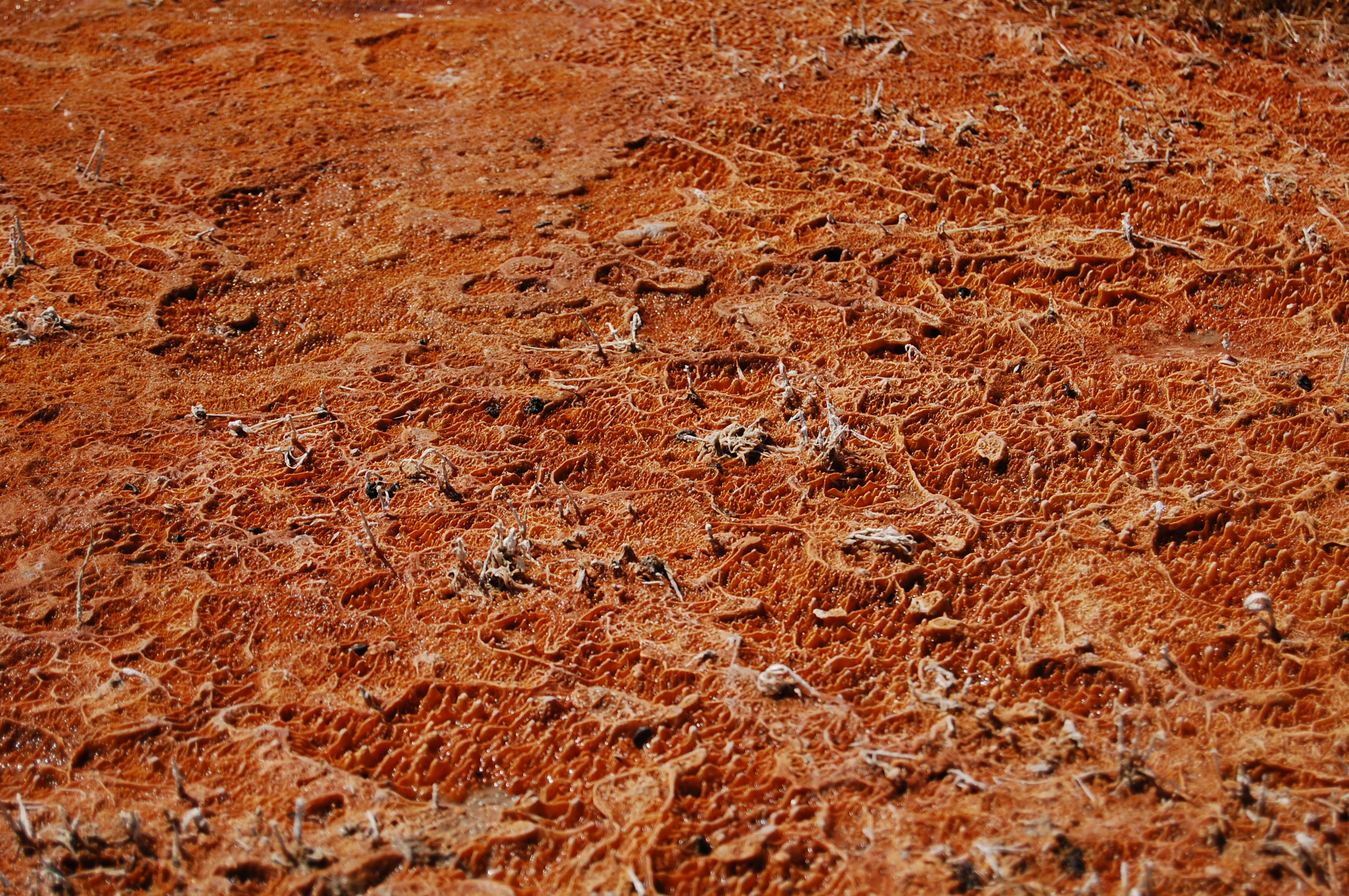 Colony of thermophilic bacteria at Mickey Hot Springs, Oregon